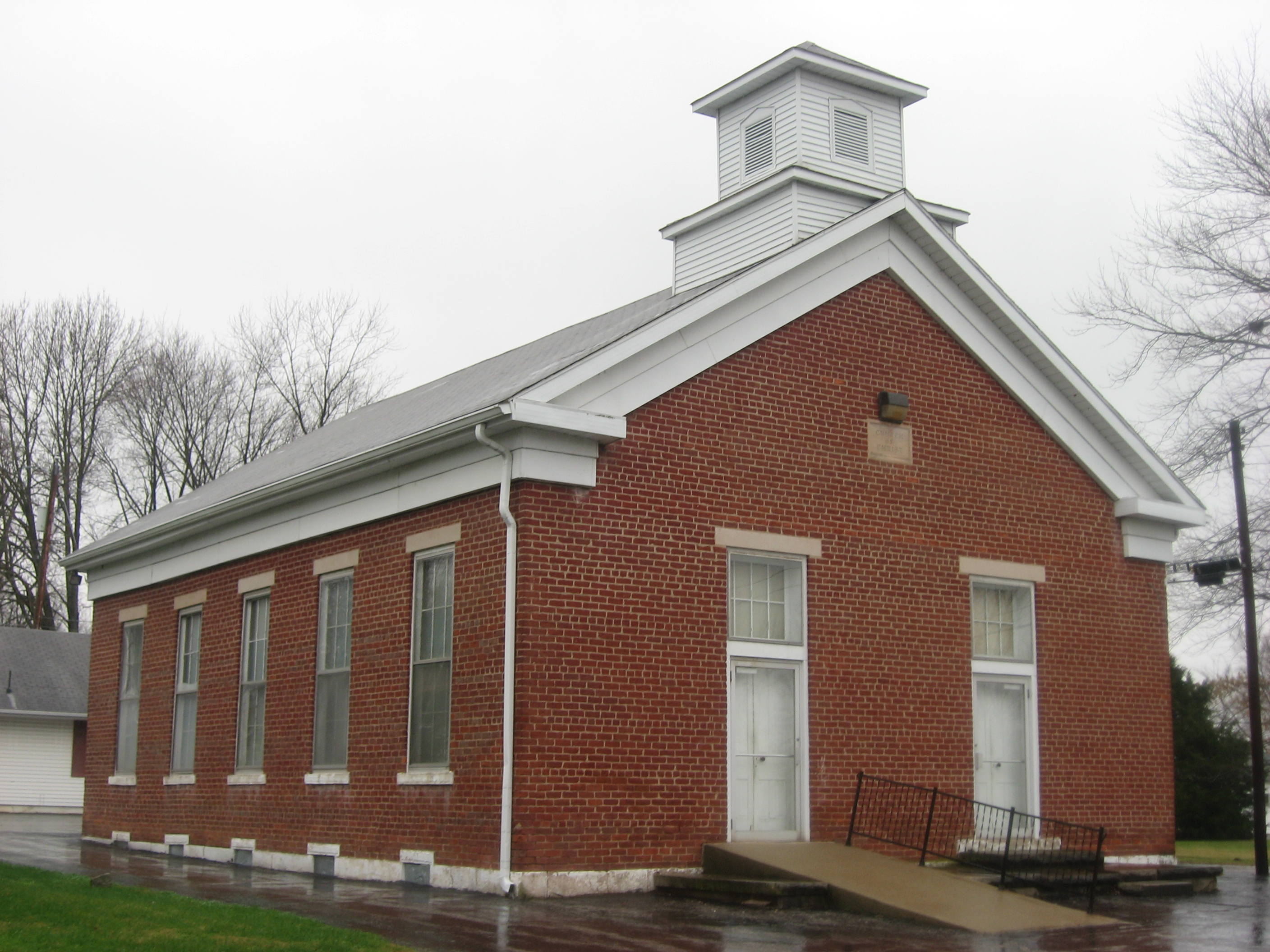 Front and southern side of the Harrodsburg Church of Christ, located at 114 W. Fourth Street in Harrodsburg, Monroe County, Indiana, United States. Built in 1870, it is part of the locally-designated Harrodsburg Historic District.